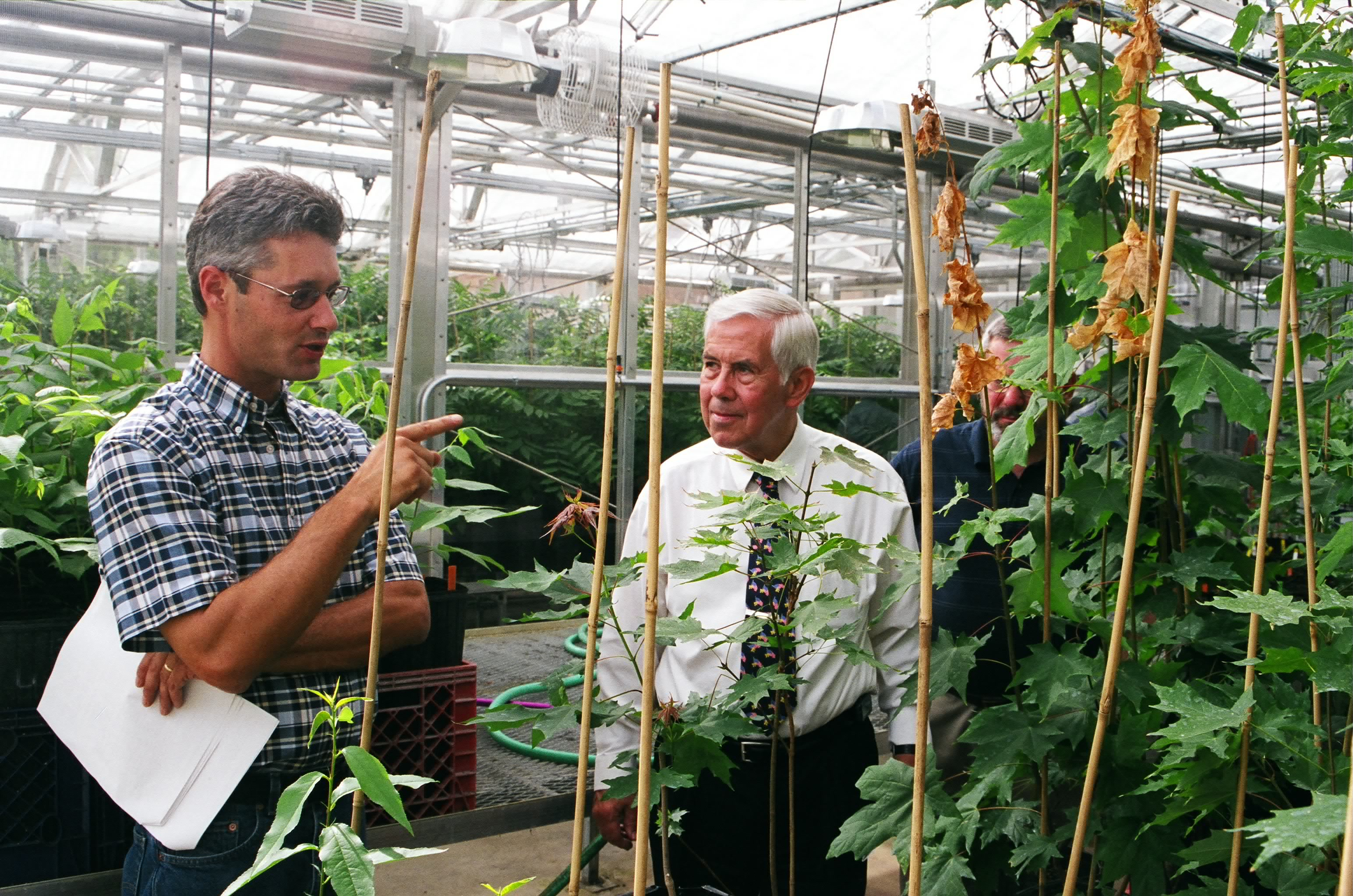 Senator Lugar inspects a genetically modified grape facility